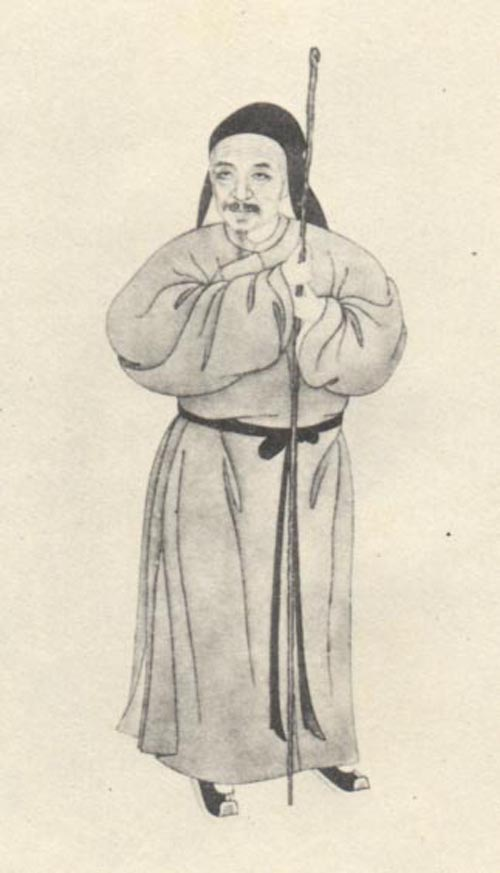 Li Zhaoluo, Chinese scholar of the Qing Dynasty.